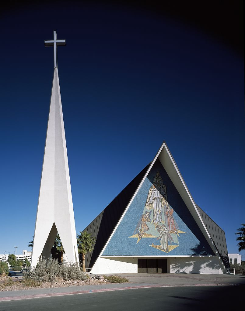 Guardian Angel Catholic Cathedral (built 1963), Modernist style seat of the Roman Catholic Diocese of Las Vegas, located in Las Vegas, Nevada.